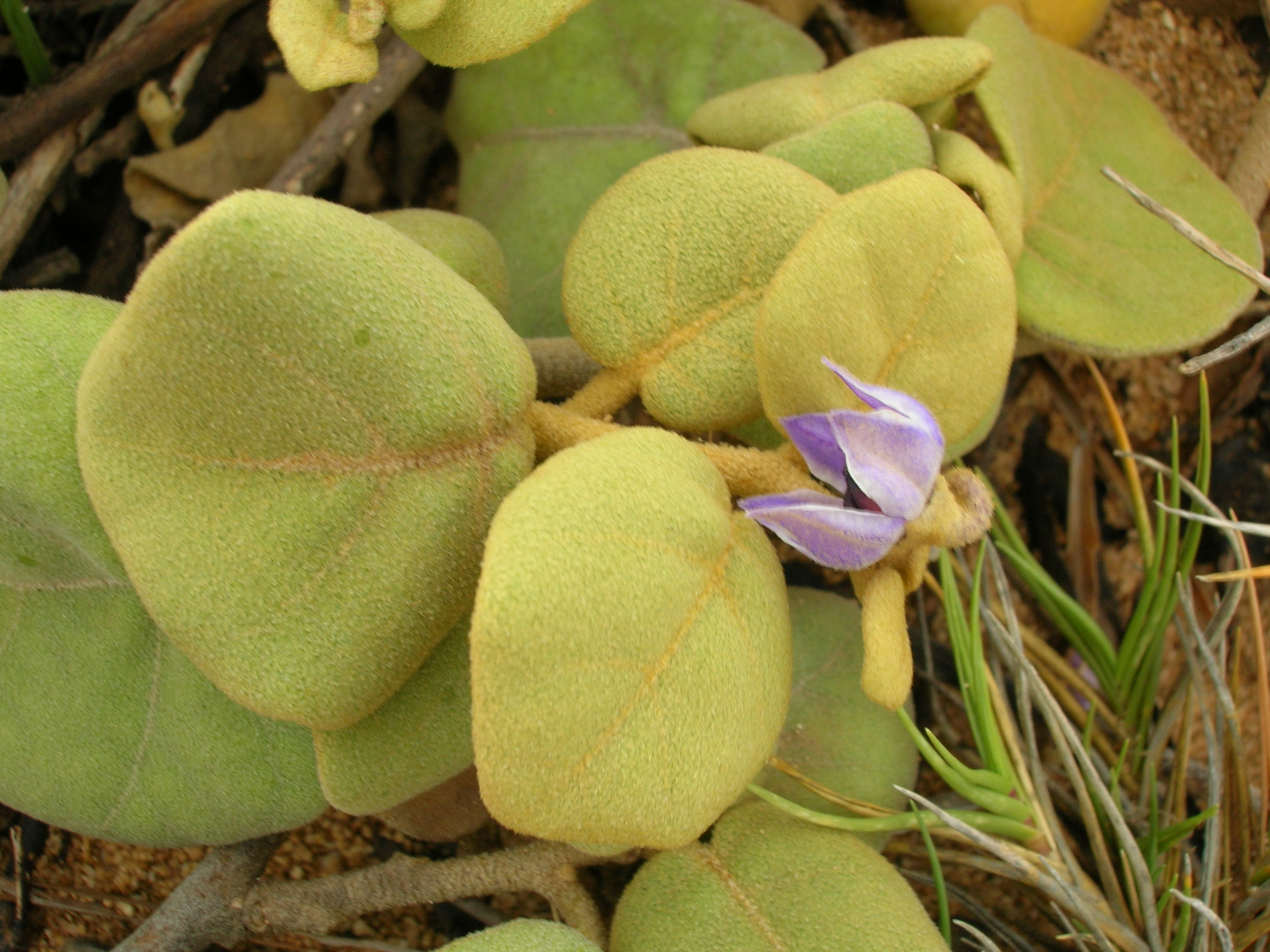 Solanum nelsonii (flower). Location: Molokai, Moomomi